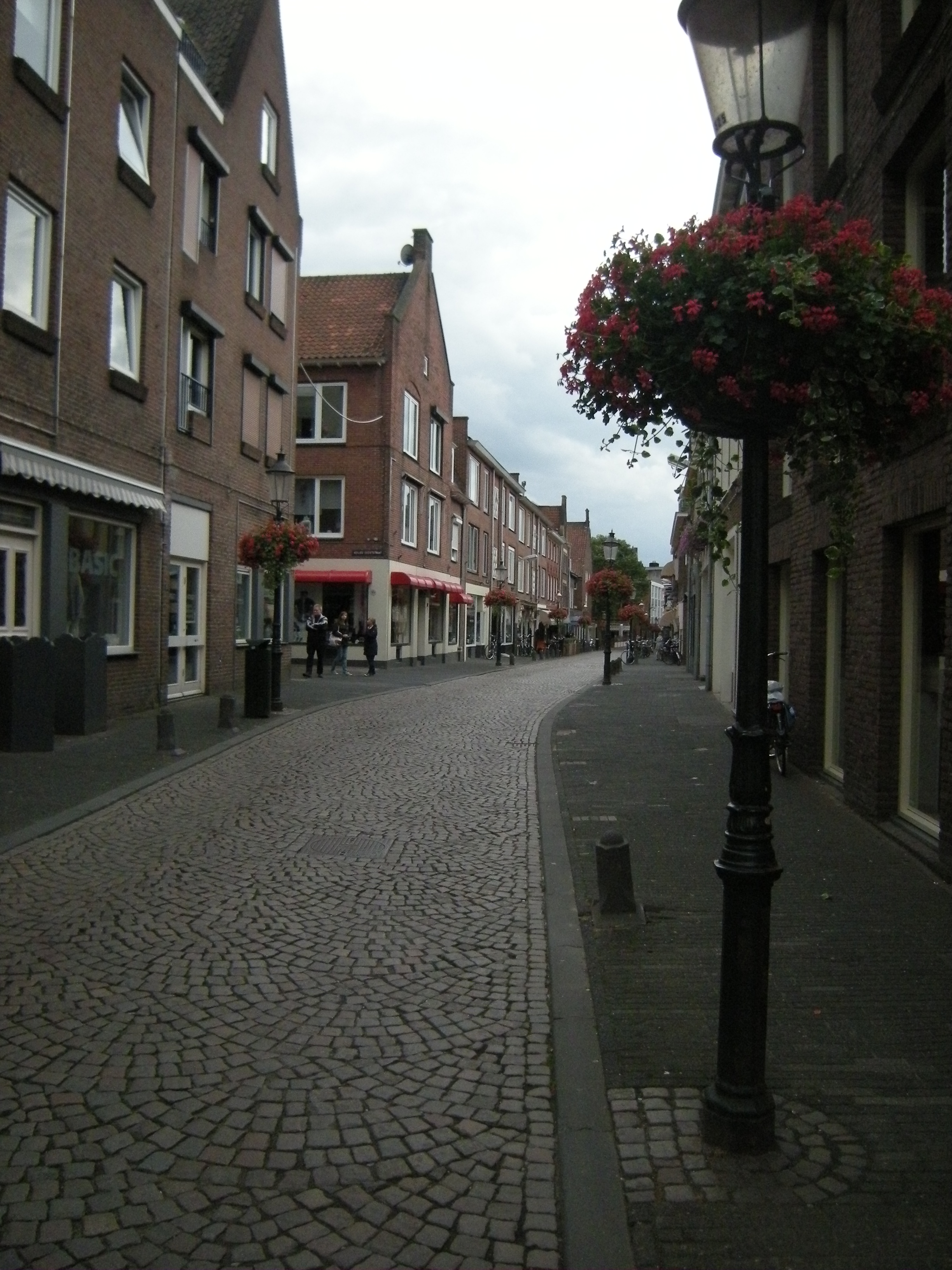 Jews Street Venlo